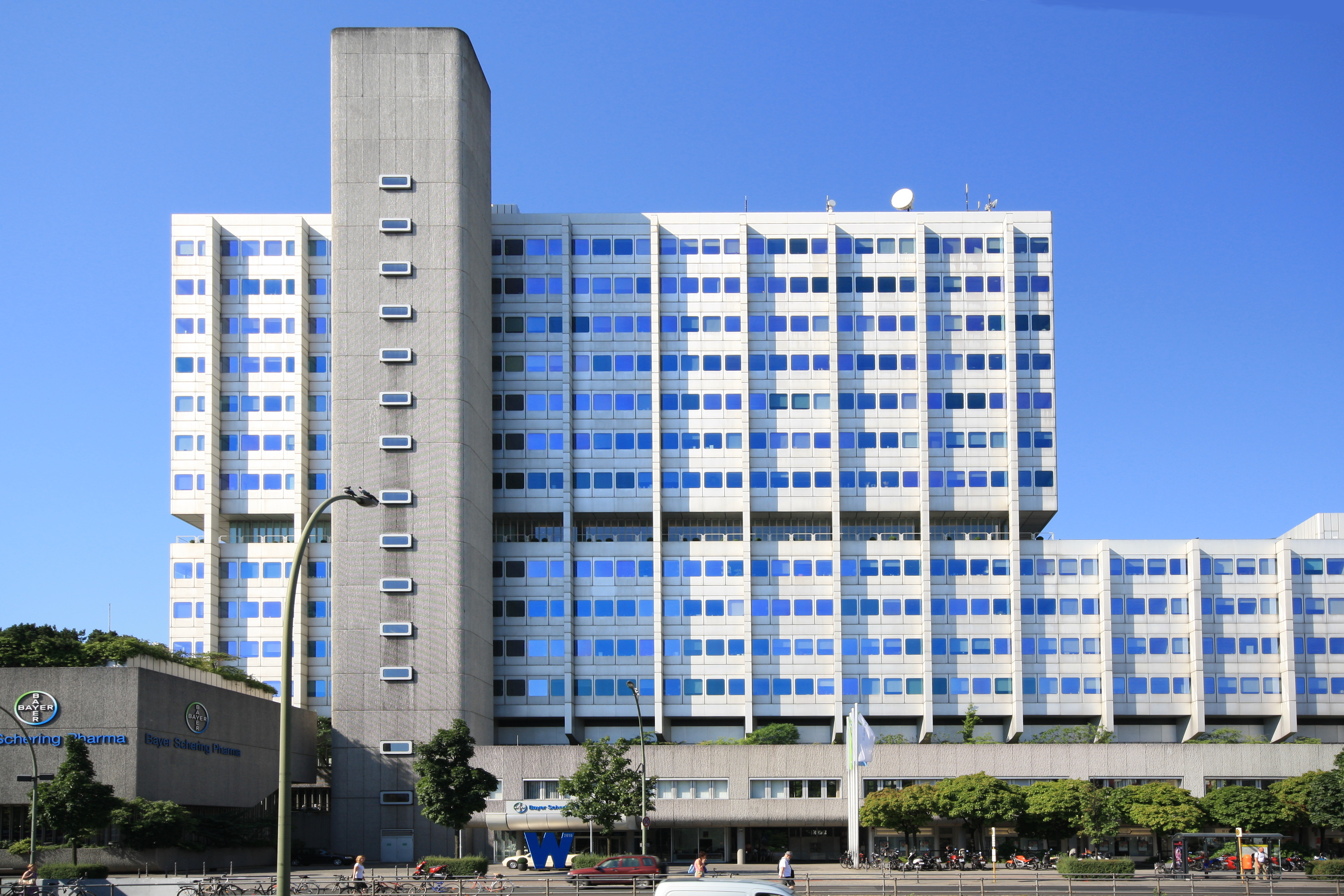 Berlin, building of Schering Company